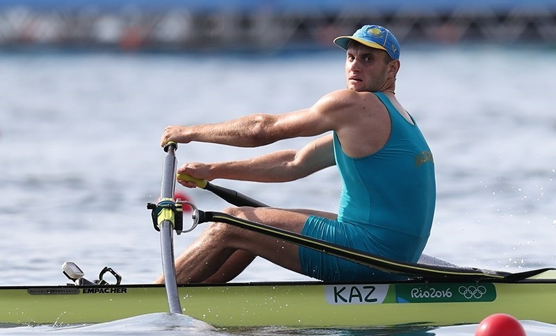 2016 Summer Olympics - Rowing - Men's single sculls